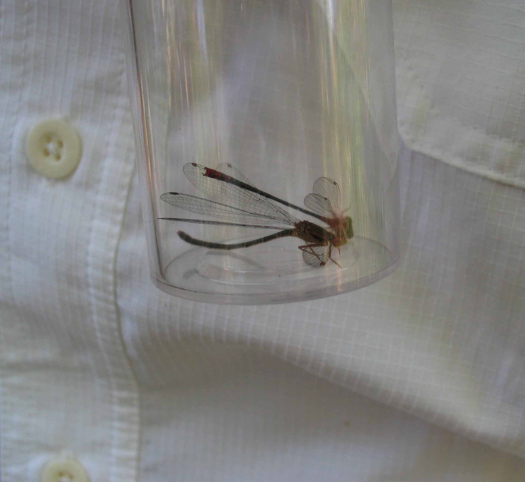 Orangeblack Hawaiian damselfly or Pinao ʻula Coenagrionidae Endemic to the Hawaiian Islands Oʻahu Male (red) & female (tan) in examination bottle. No worries, they were released.